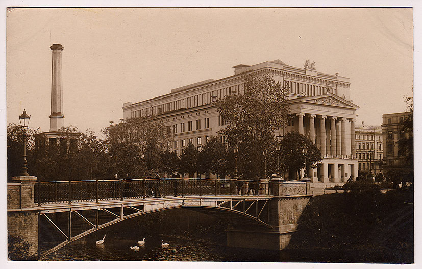 The National Opera Nouse, Riga, Latvia.